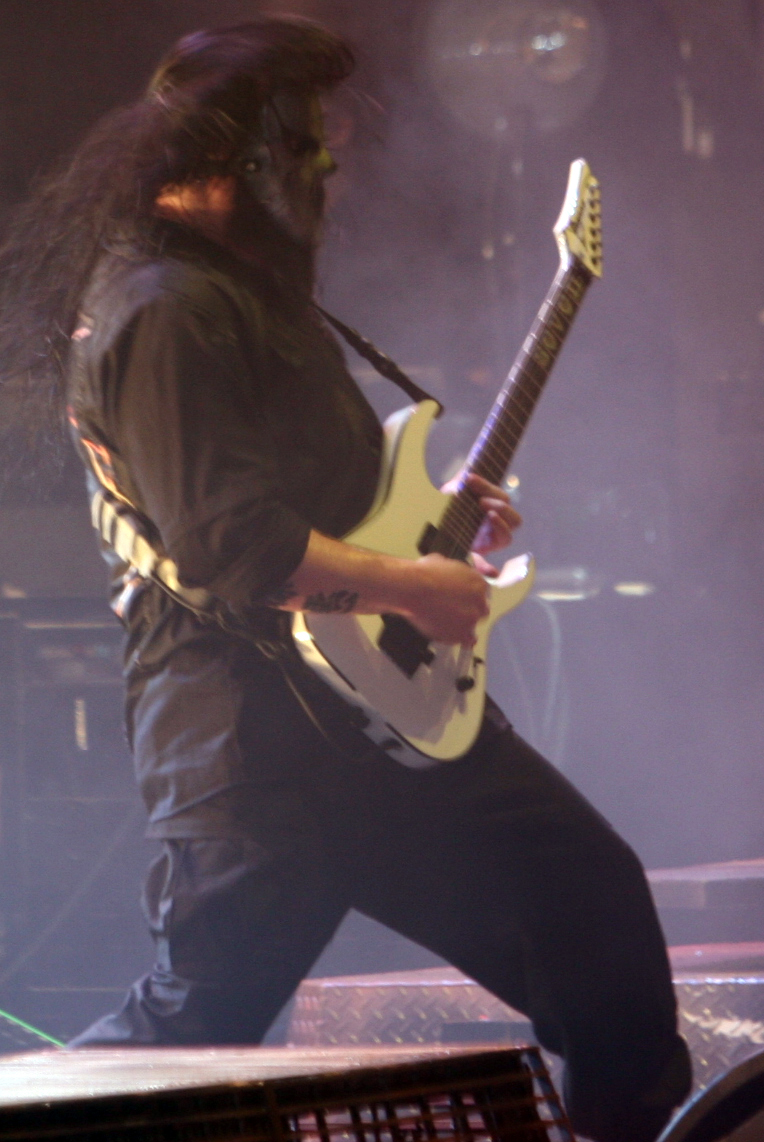 Guitarist Mick Thomson performing in Slipknot at Mayhem festival 2008.